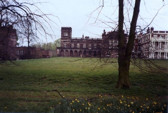 Knowsley Hall from the South This is the rear of the oldest wing of the Hall, The Royal Lodgings, built in 1495 for the visit of Lord Derby's stepfather, Henry VII.